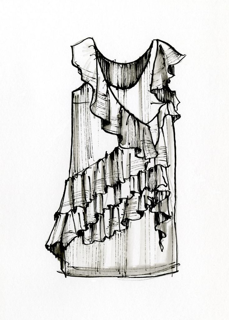 Drawing of the Thesaurus concept : 'ruffle dress'.